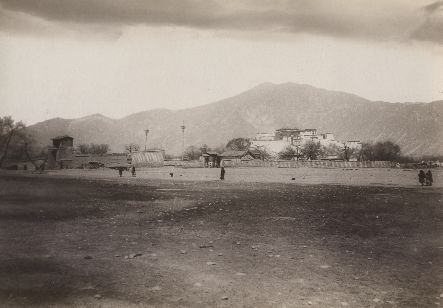 Lhasa Amban's yamen from Southeast around 1900-1901. After the photographer, walls on both sides of the gate facing the south are the remnants of the old walls of Lhasa, which were pulled down in 1721. We can see Potala Palace in the background.